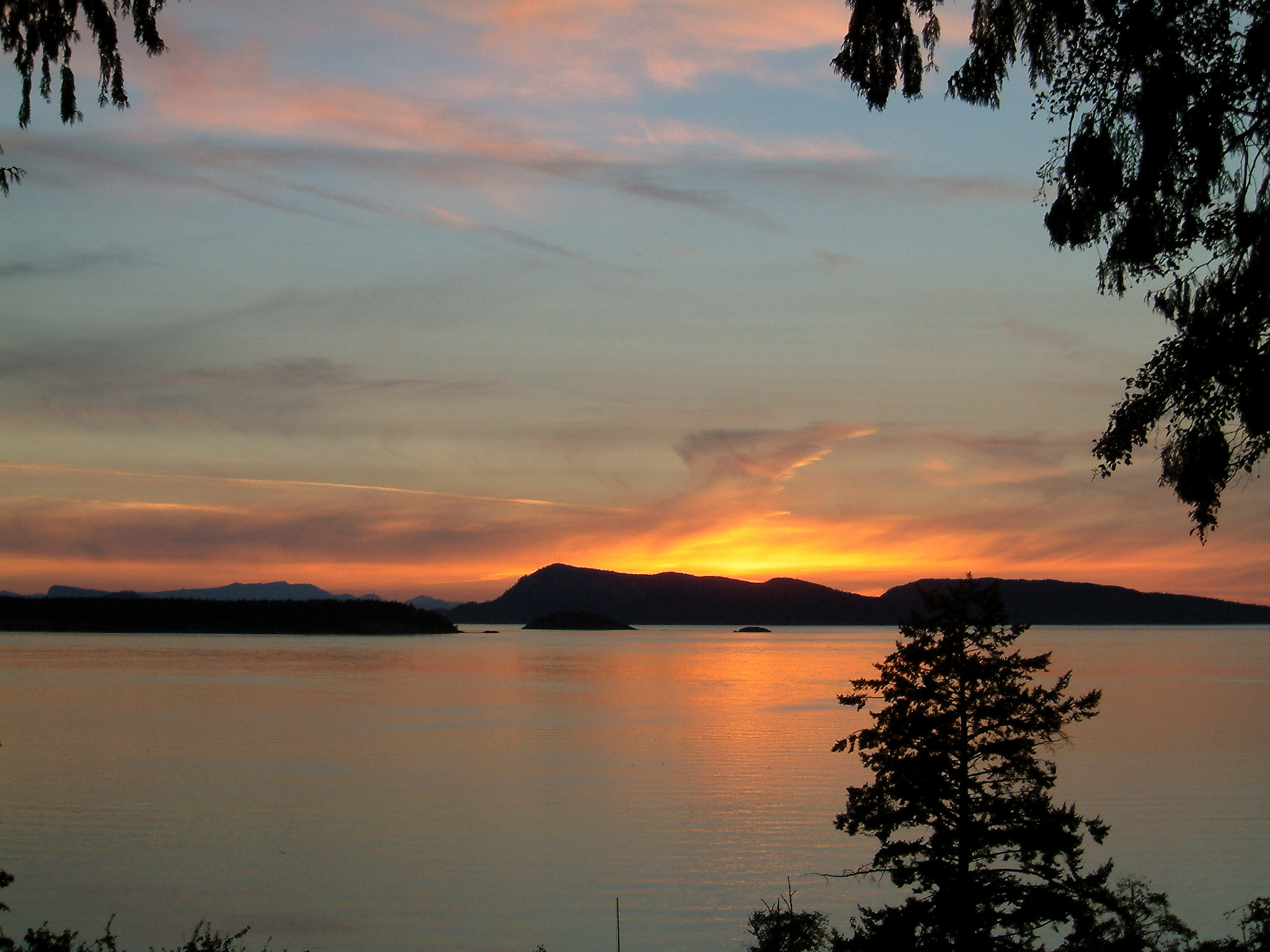 View from YMCA Camp Orkila's Chapel Ridge showing a typical sunset over Waldron Island and the Canadian Gulf Islands.